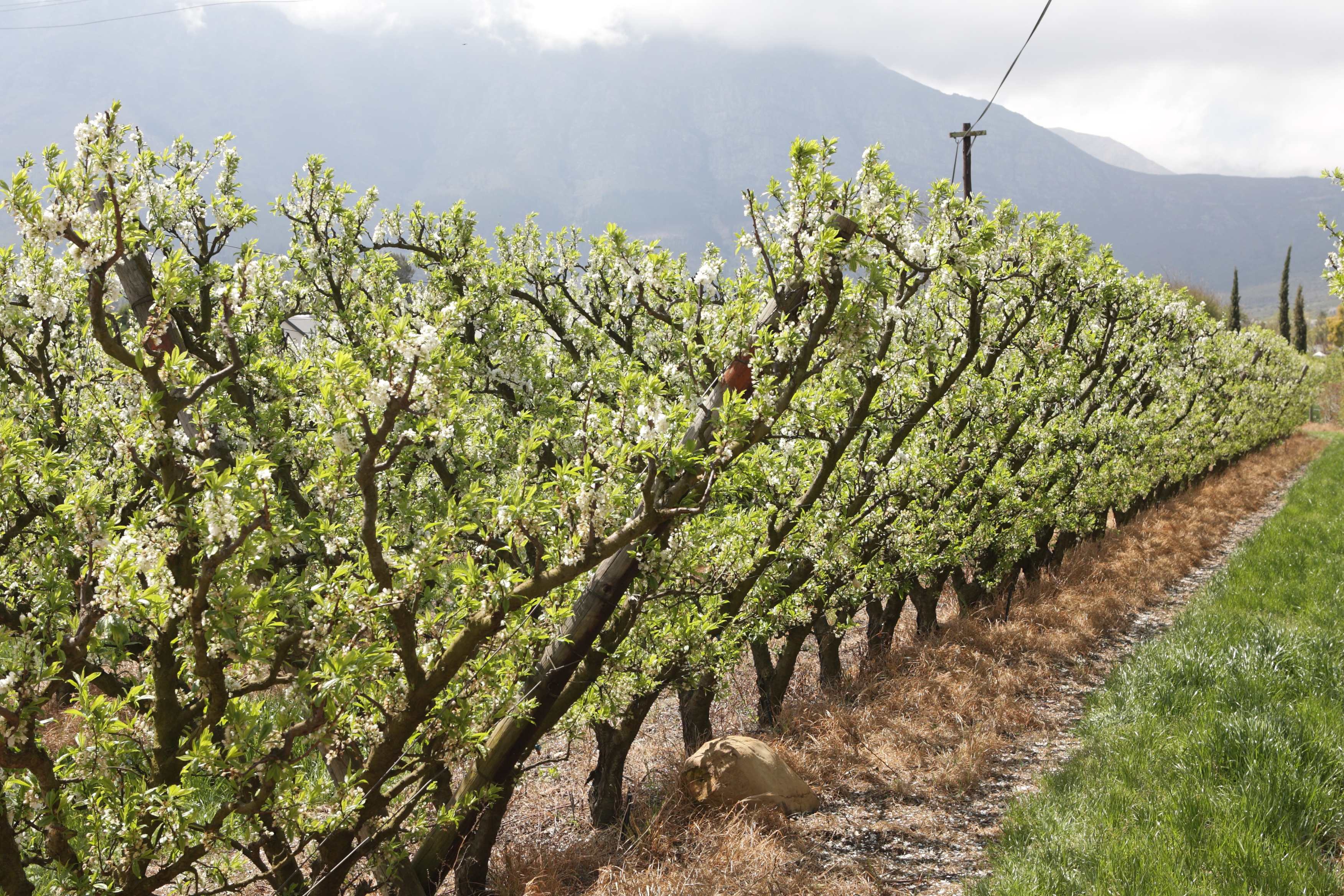 A row of blooming Prunus dulcis (almond) in Franschoek, South-Africa